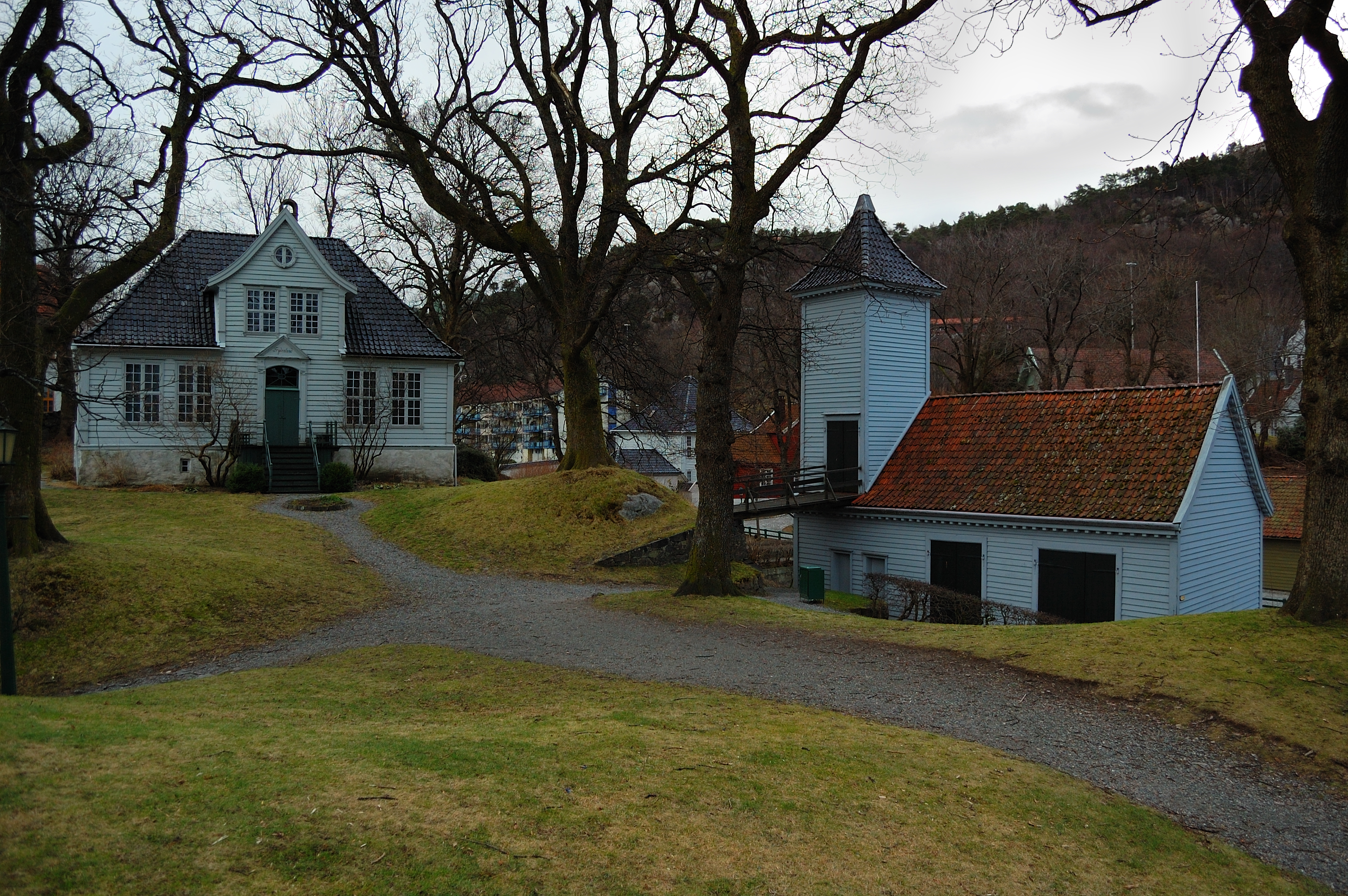 Gamle Bergen - open air museum in Bergen, Norway.